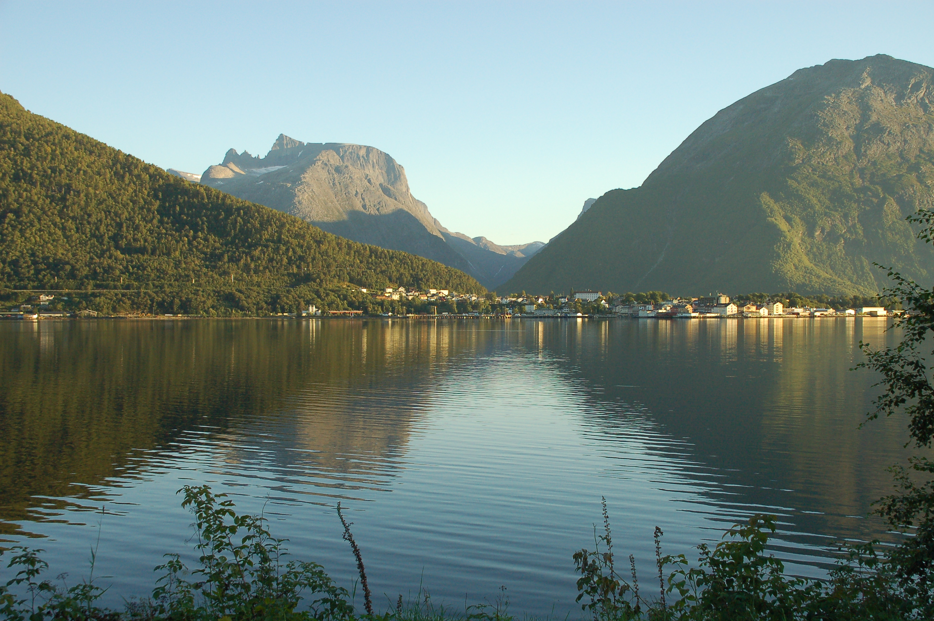 Store Trolltind behind Åndalsnes.